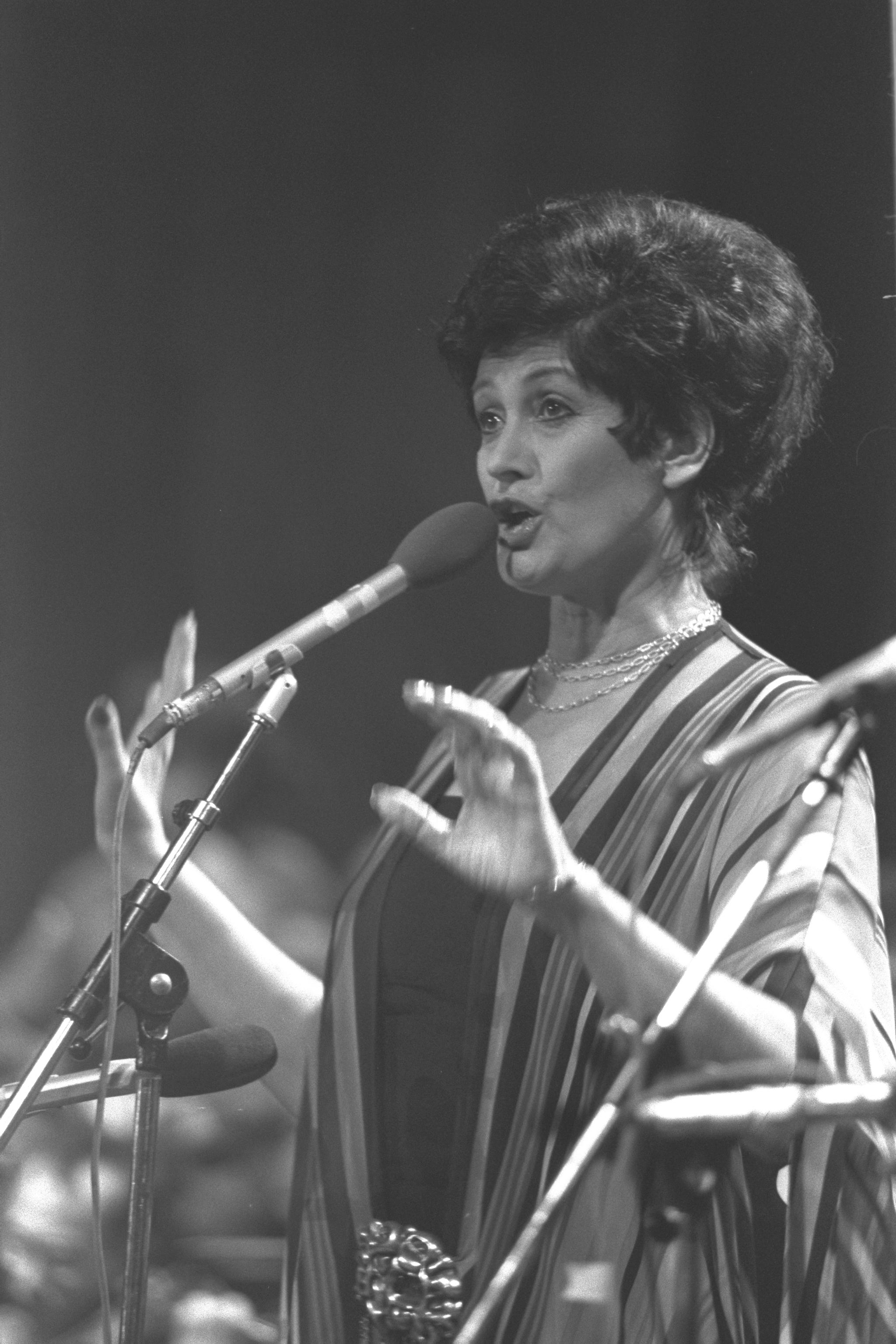 Singer Yafa Yarkoni. הזמרת יפה ירקוני Photo: Yaakov Saar (1951–) Alternative names SA'AR YA'ACOV; Jacob Saar; Saʻar, YaʻaḳovDescriptionIsraeli photographerDate of birth 1951 Authority control : Q28751896 VIAF: 298161188 NLI: 001394176 creator QS:P170,Q28751896 .